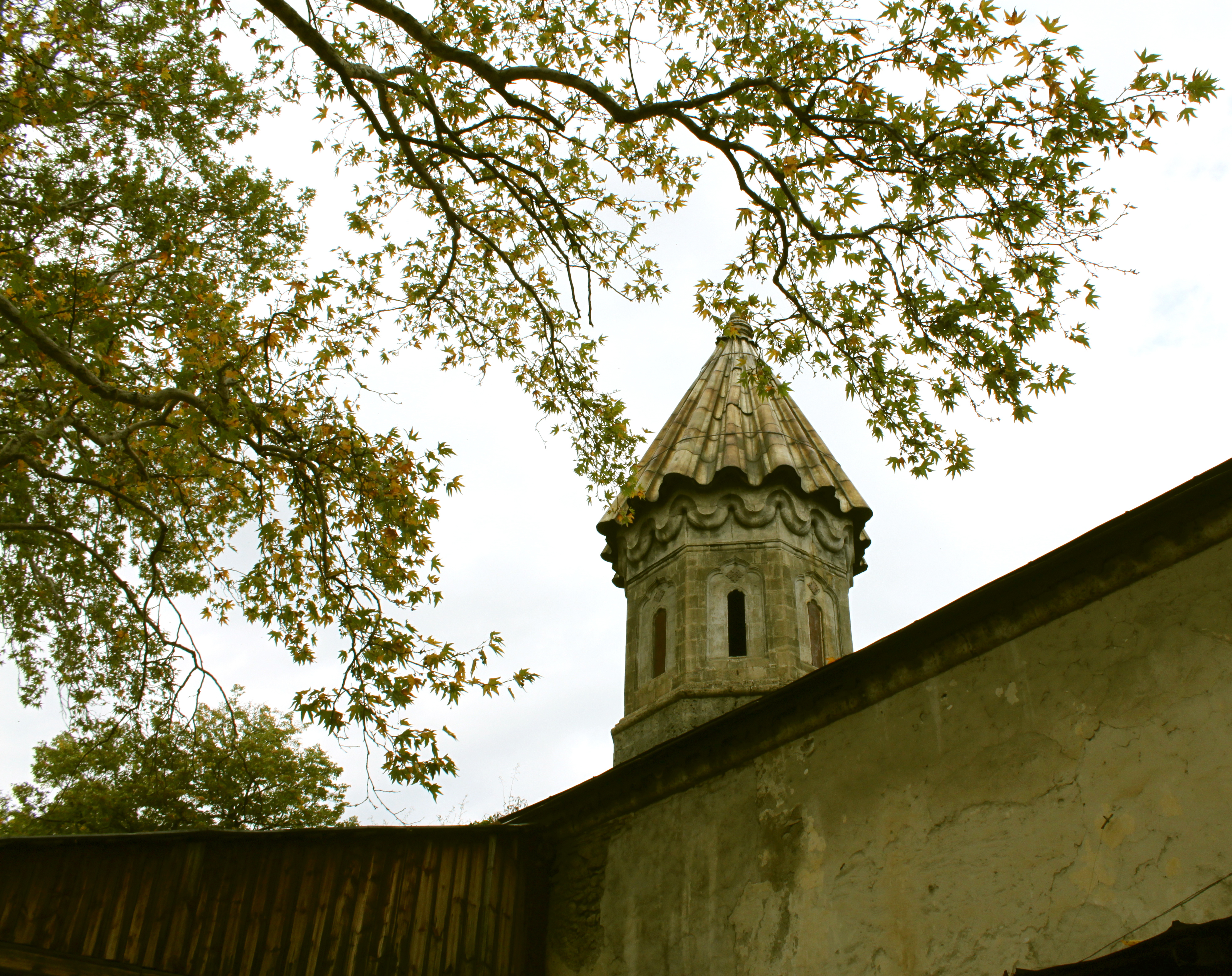 Armenian Сhurch in Shaki